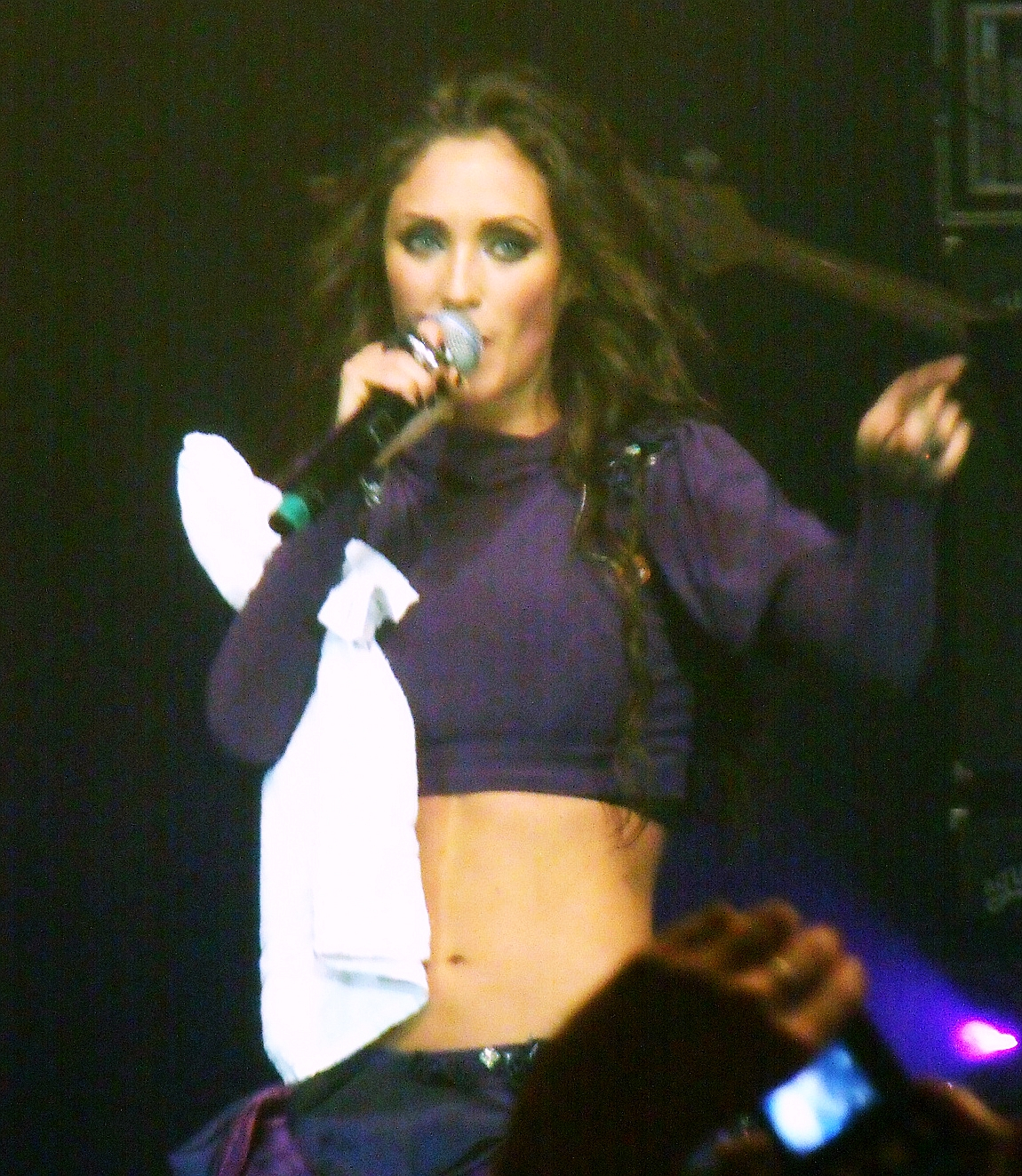 Anahí Puente performing Mi Delirio World Tour Reloaded in Brazil, 2010.